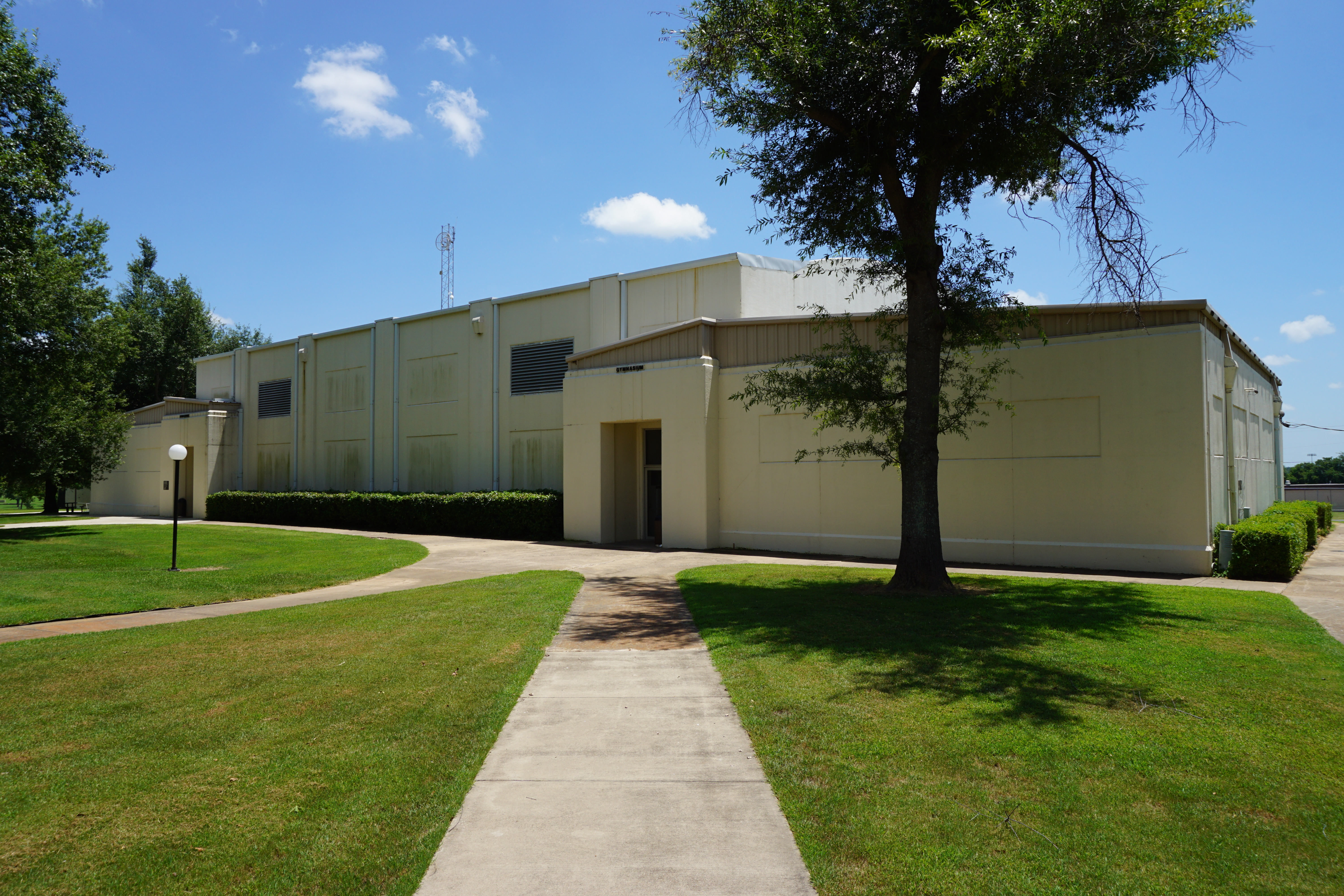 The Gymnasium on the campus of Paris Junior College in Paris, Texas (United States).